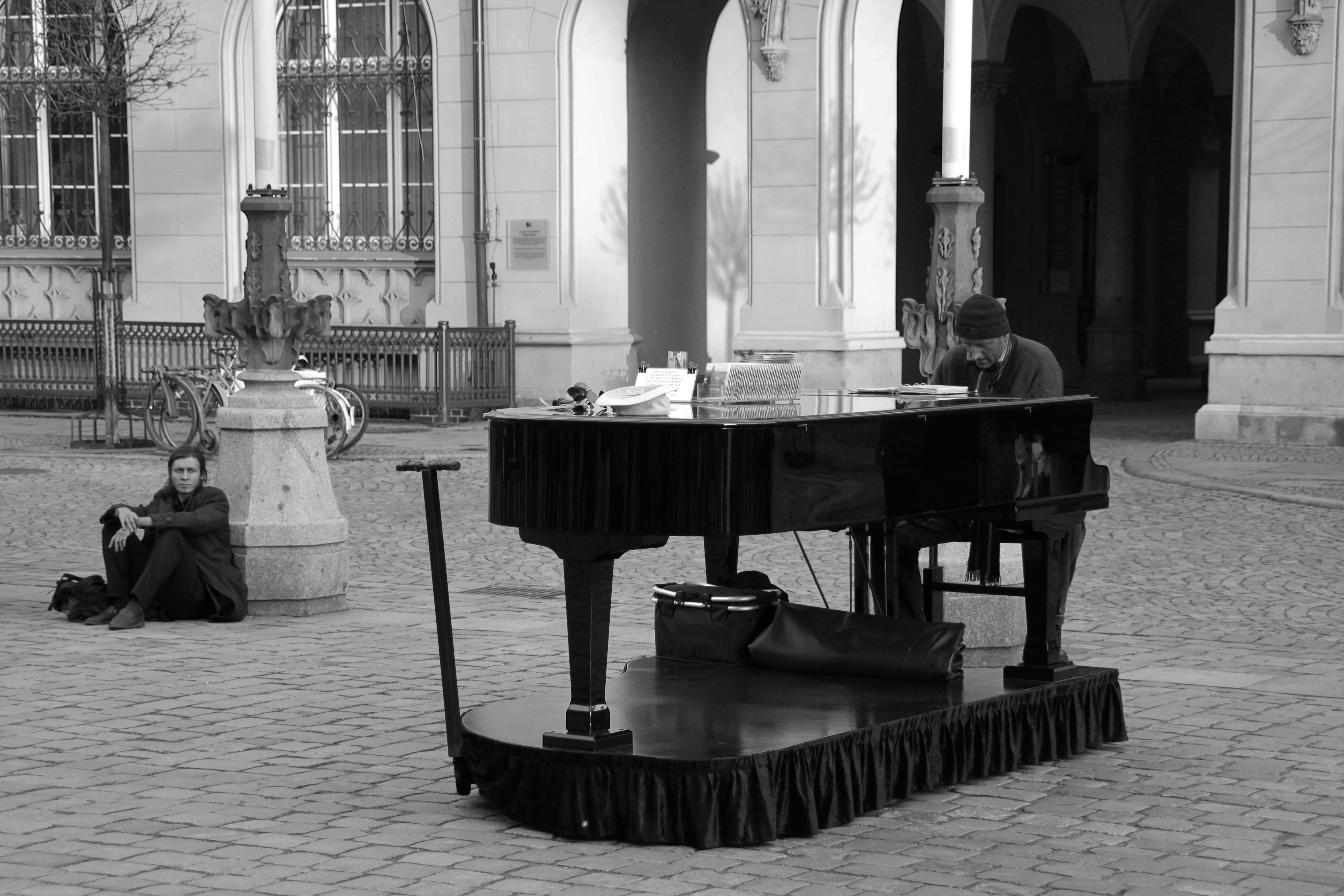 Arne Schmitt, a German street musician from Hagen, plays at Rinek, the old marketplace in the centre of the Polish city Wroclaw... Arne Schmitt, a street pianist